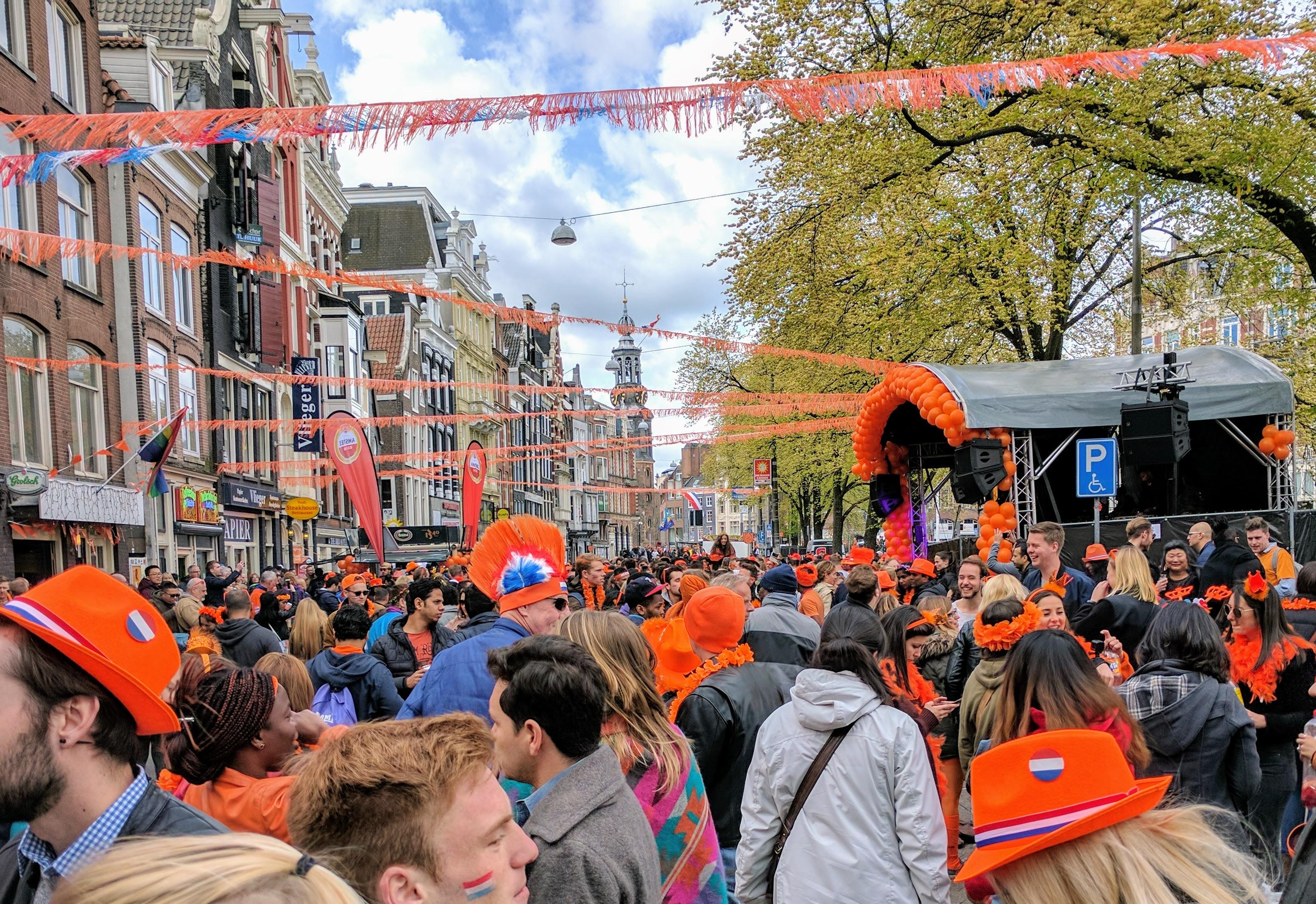 Koningsdag 2017. Amstel, Amsterdam.